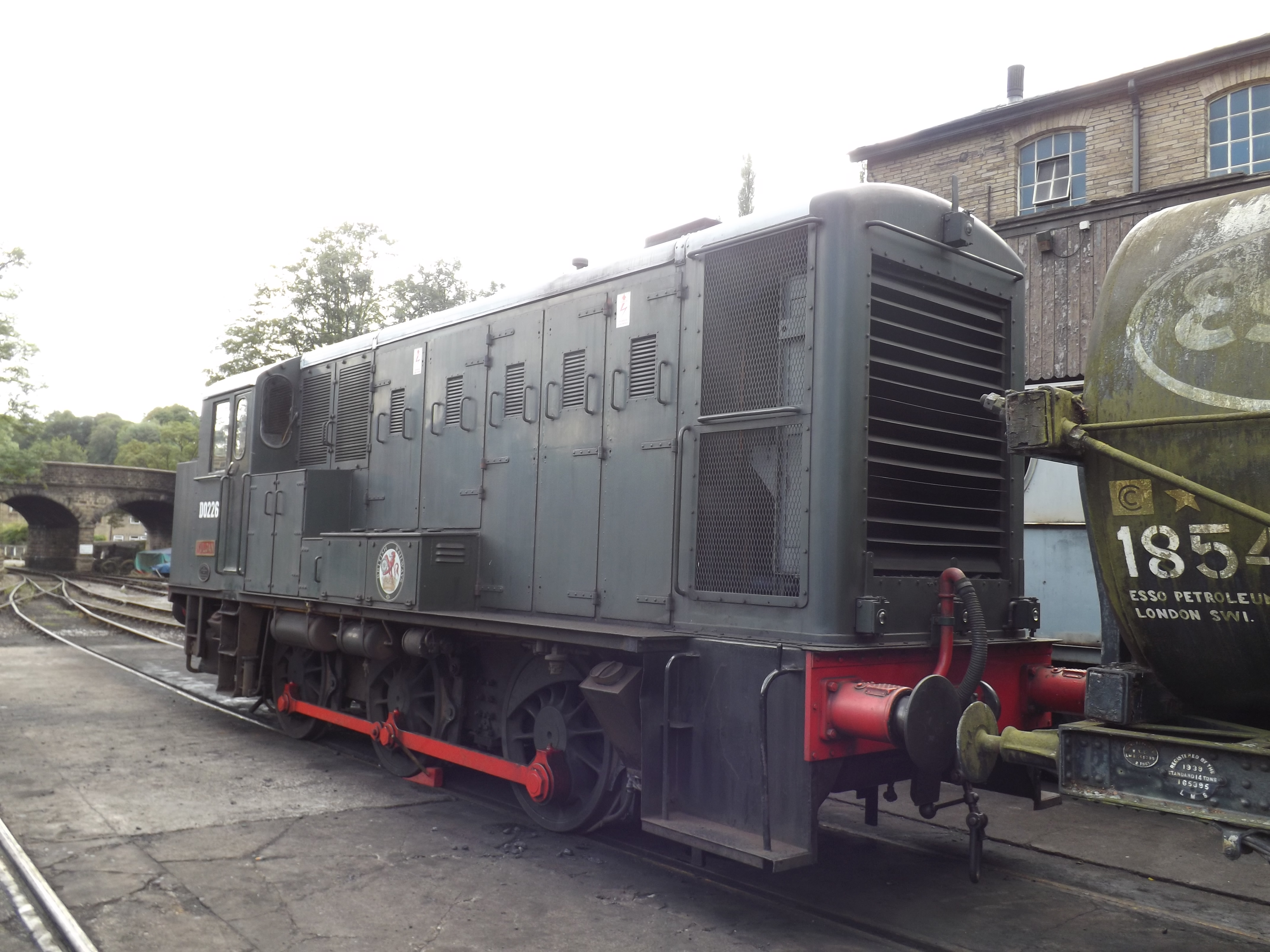 English Electric 0-6-0 No. D0226 "Vulcan" stabled at Haworth yard on the Keighley and Worth Valley Railway.